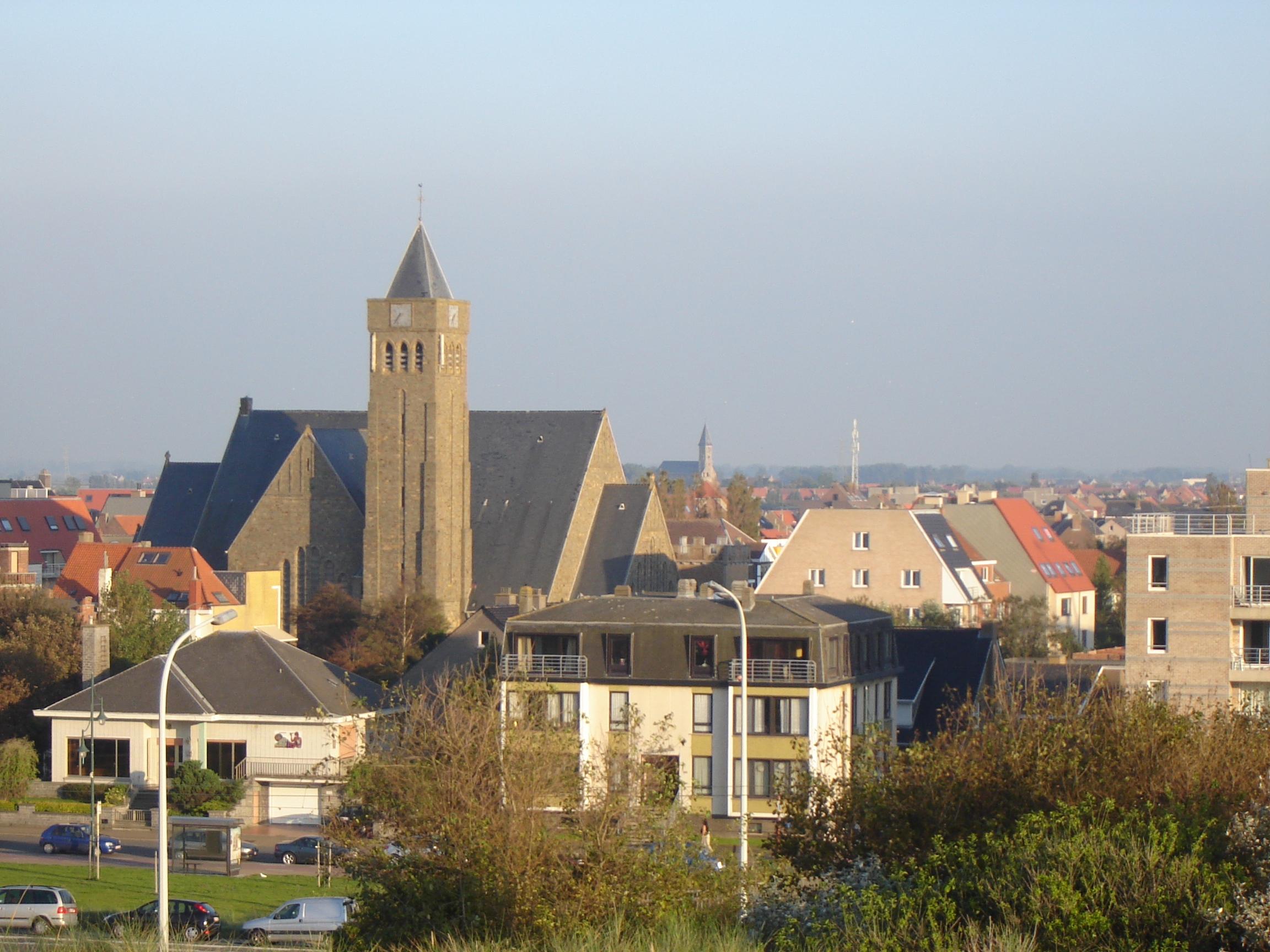 View on Bredene, as seen from the dunes. In front, Bredene-Duinen with de church of Saint Teresa. In the background, the old Bredene-Dorp, with the church of Saint Richarius. Bredene, West Flanders, Belgium